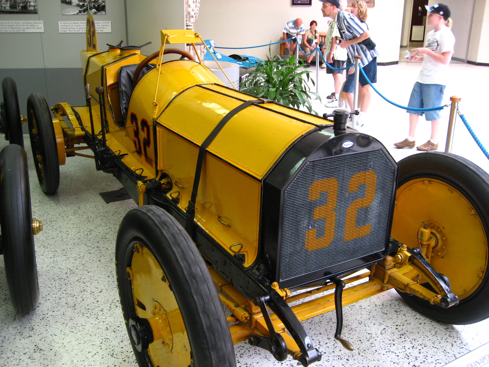 Photograph of Ray Harroun’s Marmon “Wasp”, winner of the 1911 Indianapolis 500, on display at the Indianapolis Motor Speedway Hall of Fame Museum